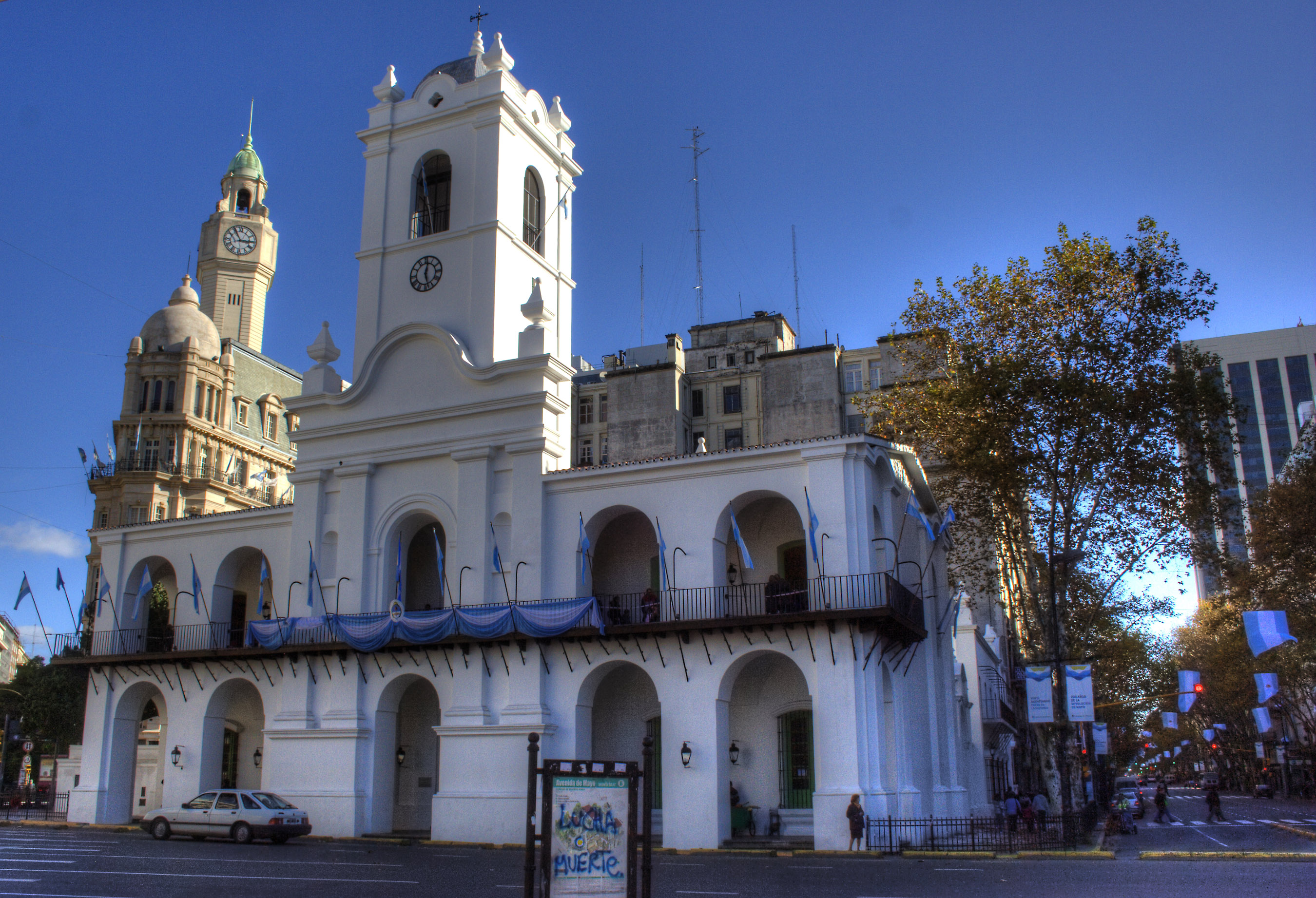 View of the Cabildo adorned with flags for the Argentine Bicentennial.